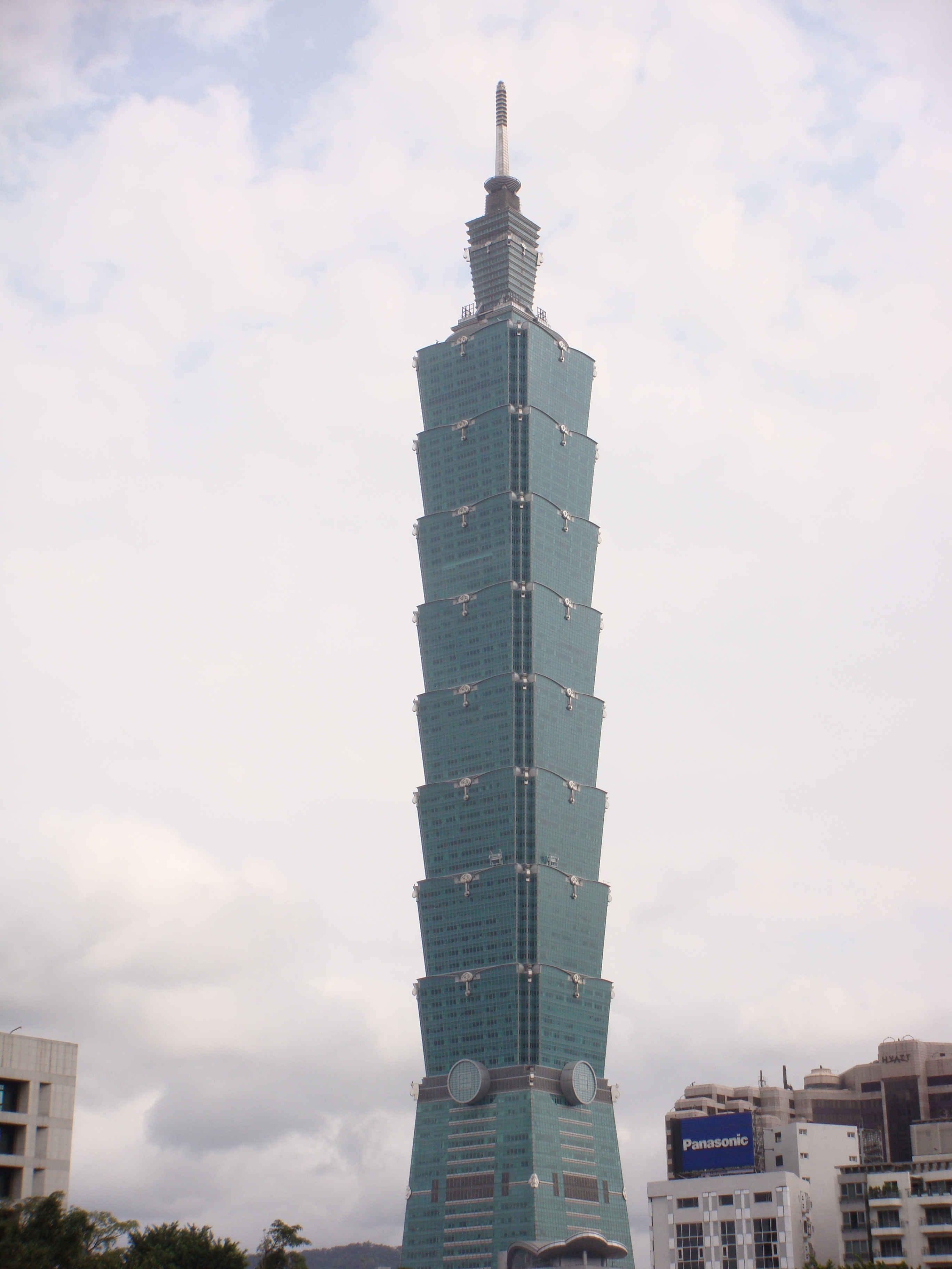 Exterior view of of Taipei 101 at daytime.